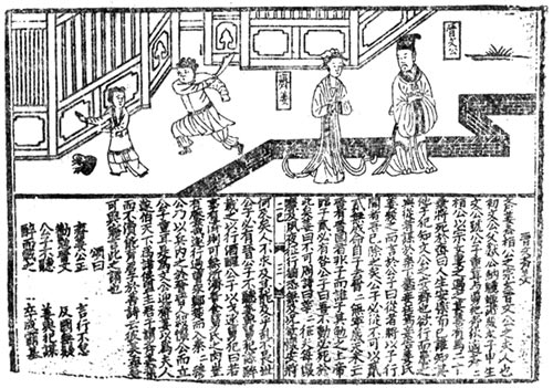 A woodcut inbetween of Lie Nu Zhuan, 11th century, China.